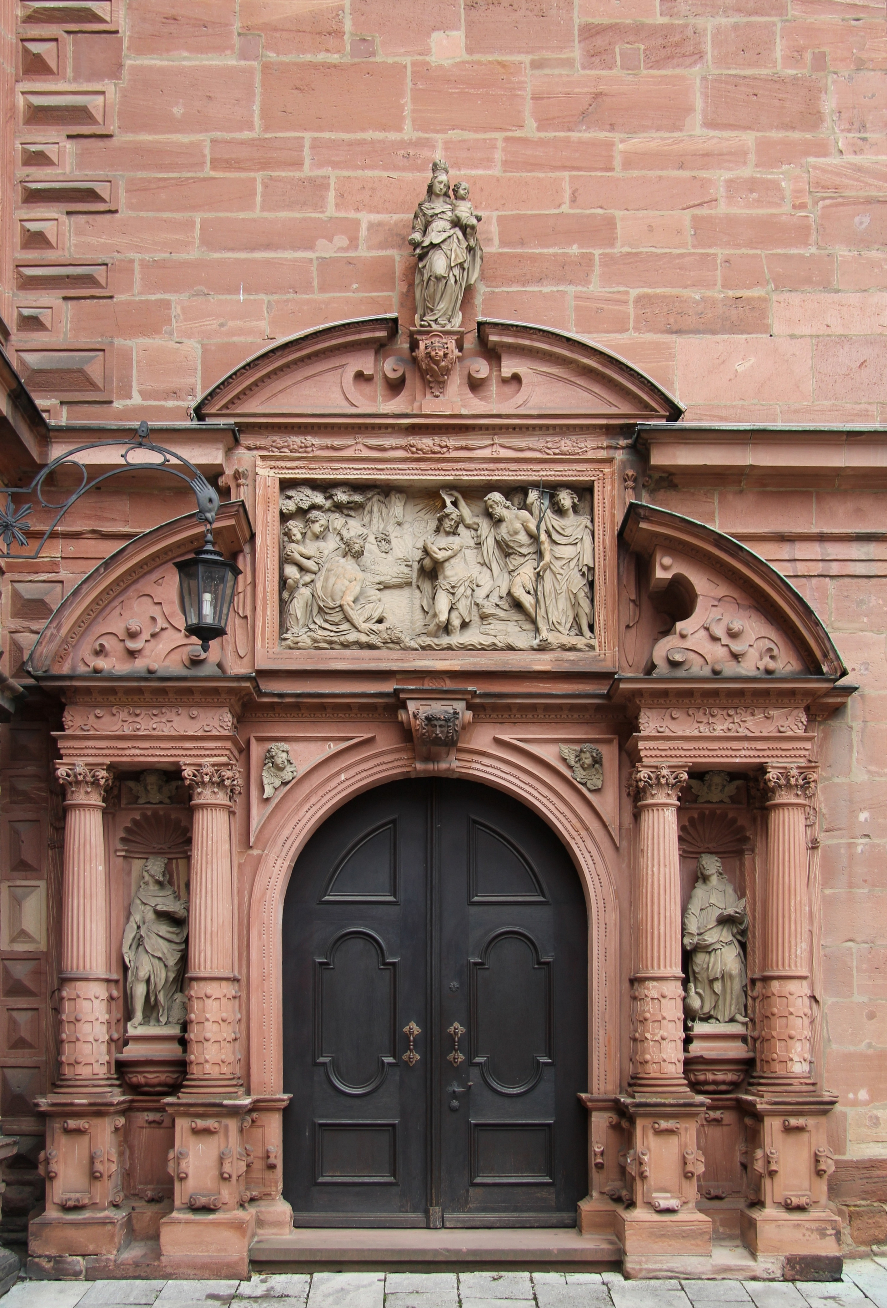 Portal of the chapel in Johannisburg Palace in Aschaffenburg, Bavaria / Germany